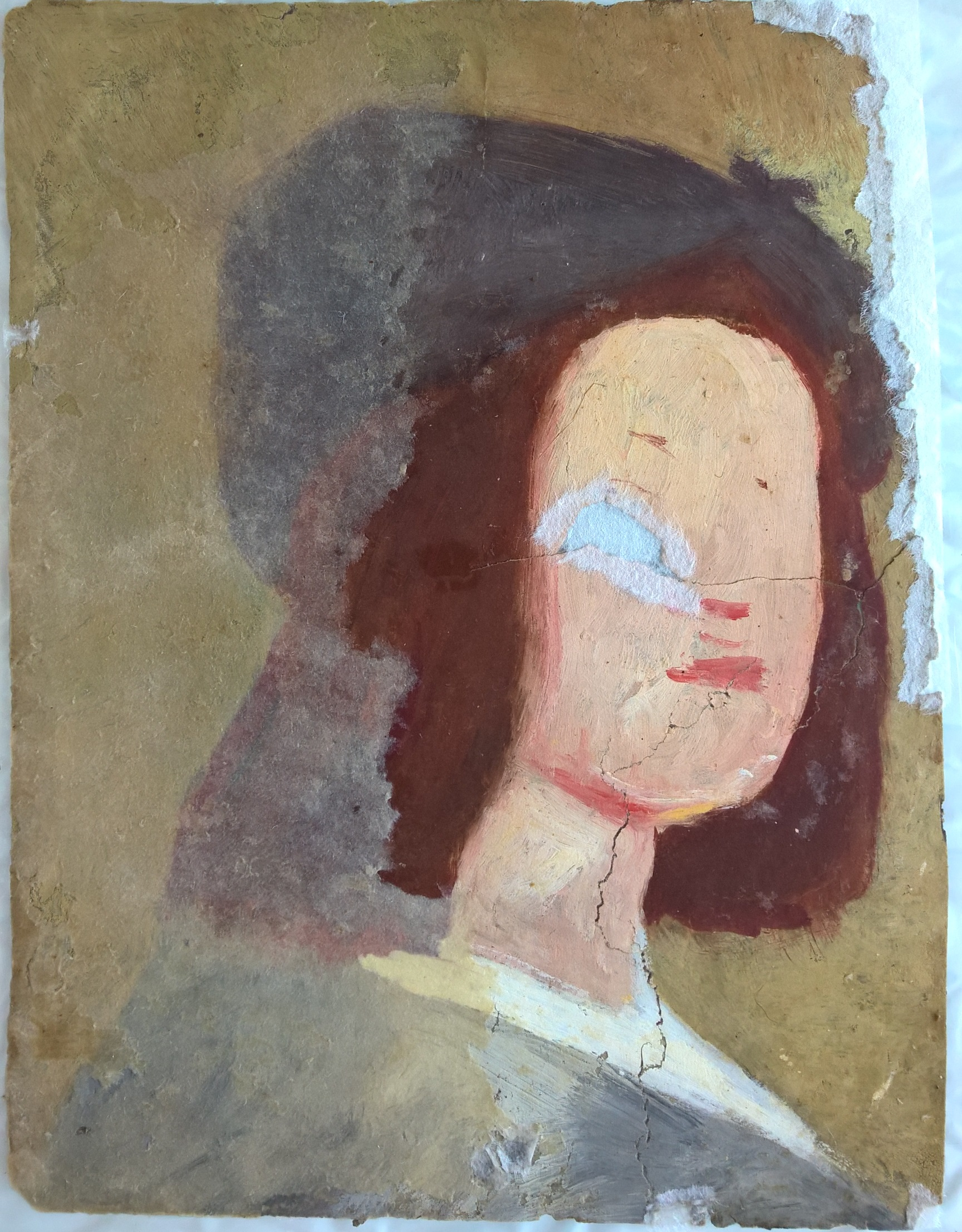 D.Dobrovich,Eleofotografia by Raphaelo (back)